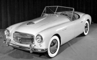 1951 sports car by Nash Motors - the Nash-Healey. The image is of a factory PR photo without a copyright. The image was freely provided to promote an item and was part of the Press Release package for this automobile with the intention that it be distributed for "free" by the media to the public. In case the provenance of the above release ever comes into question, a fair use claim is made based on the rationale of critical commentary in articles including but not limited to the following: The for "1951 Nash-Healey PR-photo.jpg" image is claimed to be used under fair use as: There is no "free" equivalent of an actual factory studio shot showing the 1951 Nash-Healey sports car. This has been previously published. The name of the photographer/artist is unknown. It is of lower resolution than the original, so it will not detract from the value of any original image. The image is only being used for informational purposes. The material is encyclopedic and otherwise meets general Wikipedia content requirements. This meets the media-specific policy requirements. The image is used in at least one article. The material contributes to the article by specifically illustrating a relevant section within the text about these automobiles. The image does not detract from the reputation of the subject. The image does not show a person.